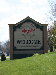 Welcome sign to Mt. Zion, IL, traveling South on Hwy. 121.